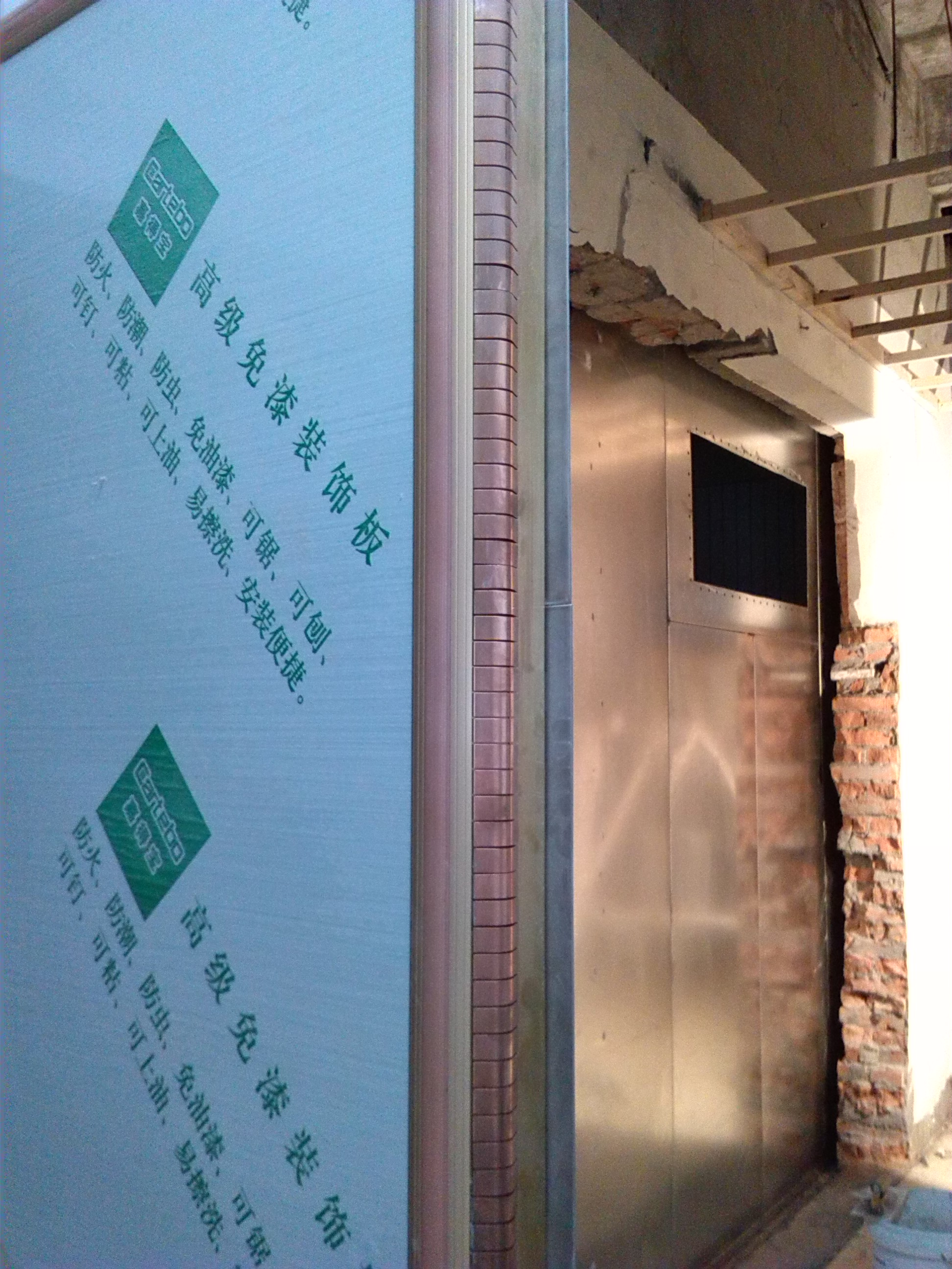 EMI shielding around an MRI machine room under construction at a hospital.